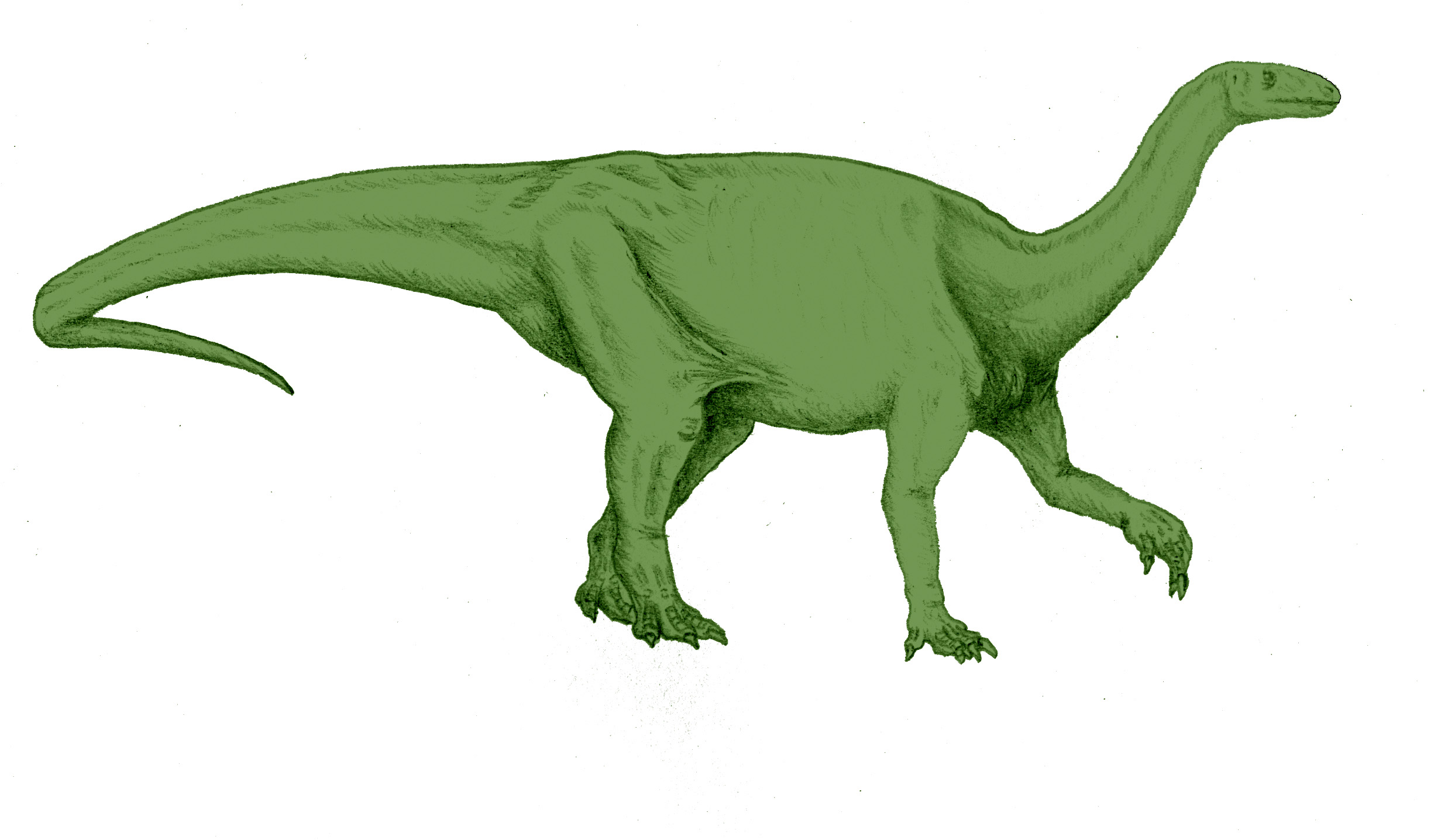 Reconstruction of Camelotia borealis, a "melanorosaurid"